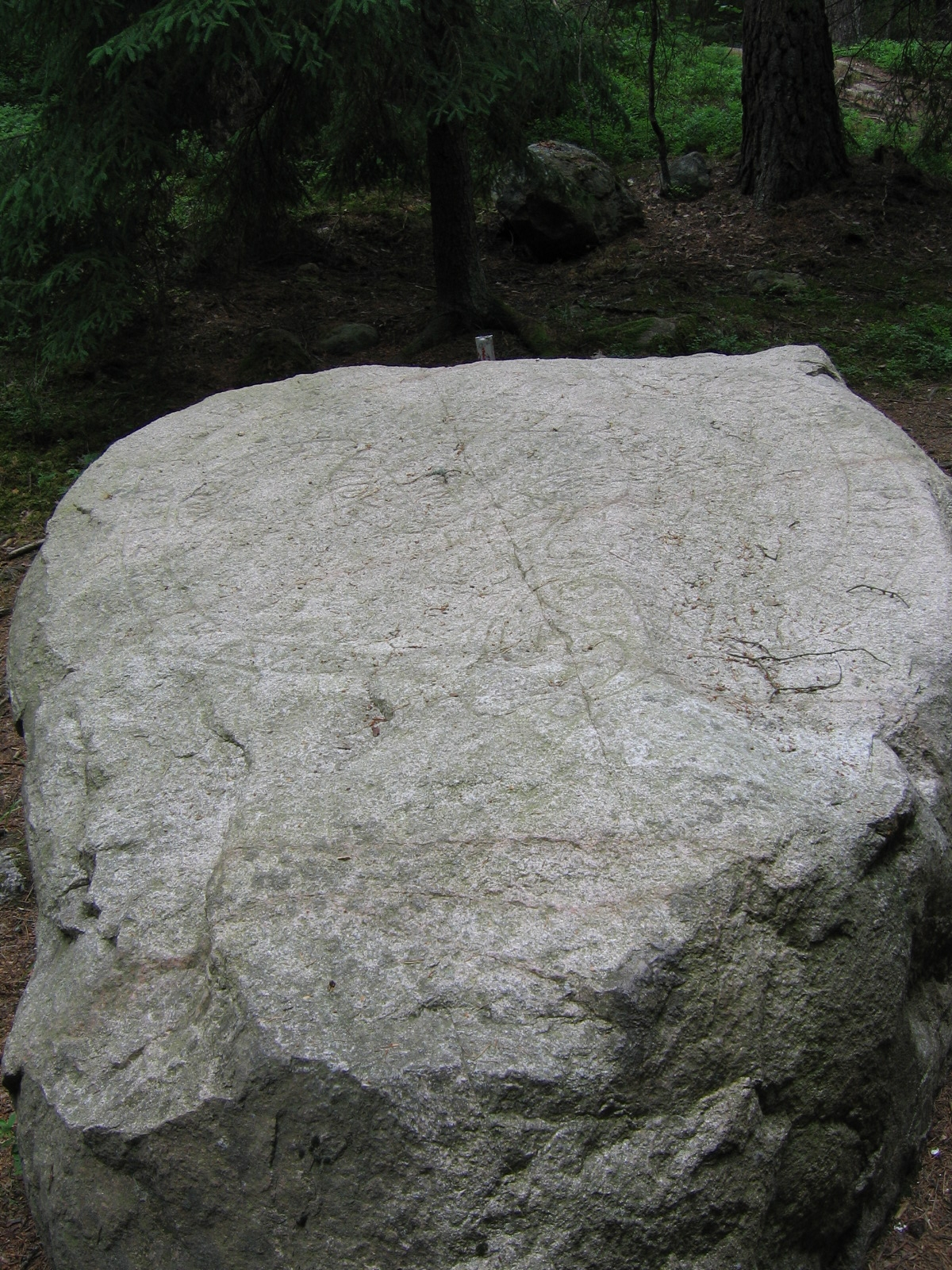 Runestone U 101 deep in the forest at Södersätra, near Stockholm. The stone is sometimes called the stone of Jarlabanke.